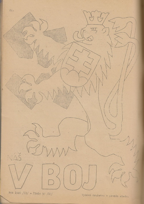 Title page of magazine named "In the fight". Magazine was printed and distributed during protectorate through resistance group "Contingent in the first frontline" Issue No. 50, year 1940, author: Czech graphic artist, typographer, painter and illustrator Vojtěch Preissig (* 1873 - † 1944)